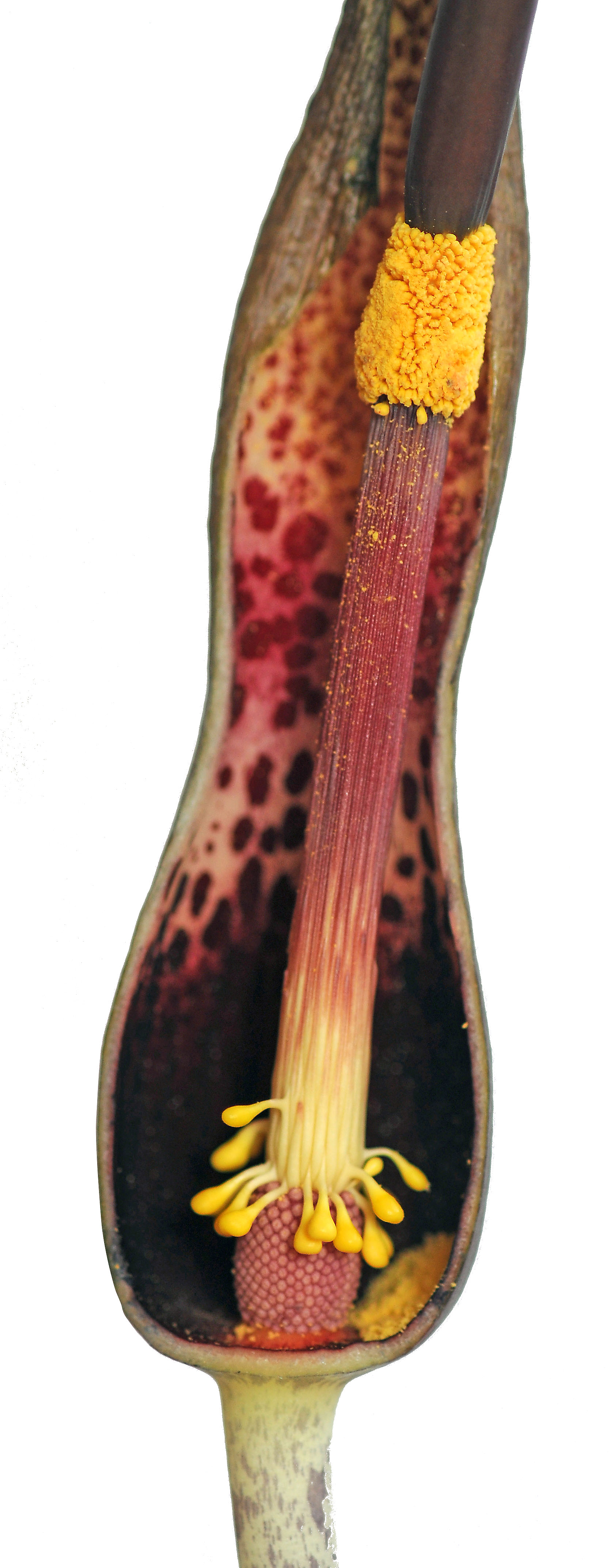 Voodoo Lily